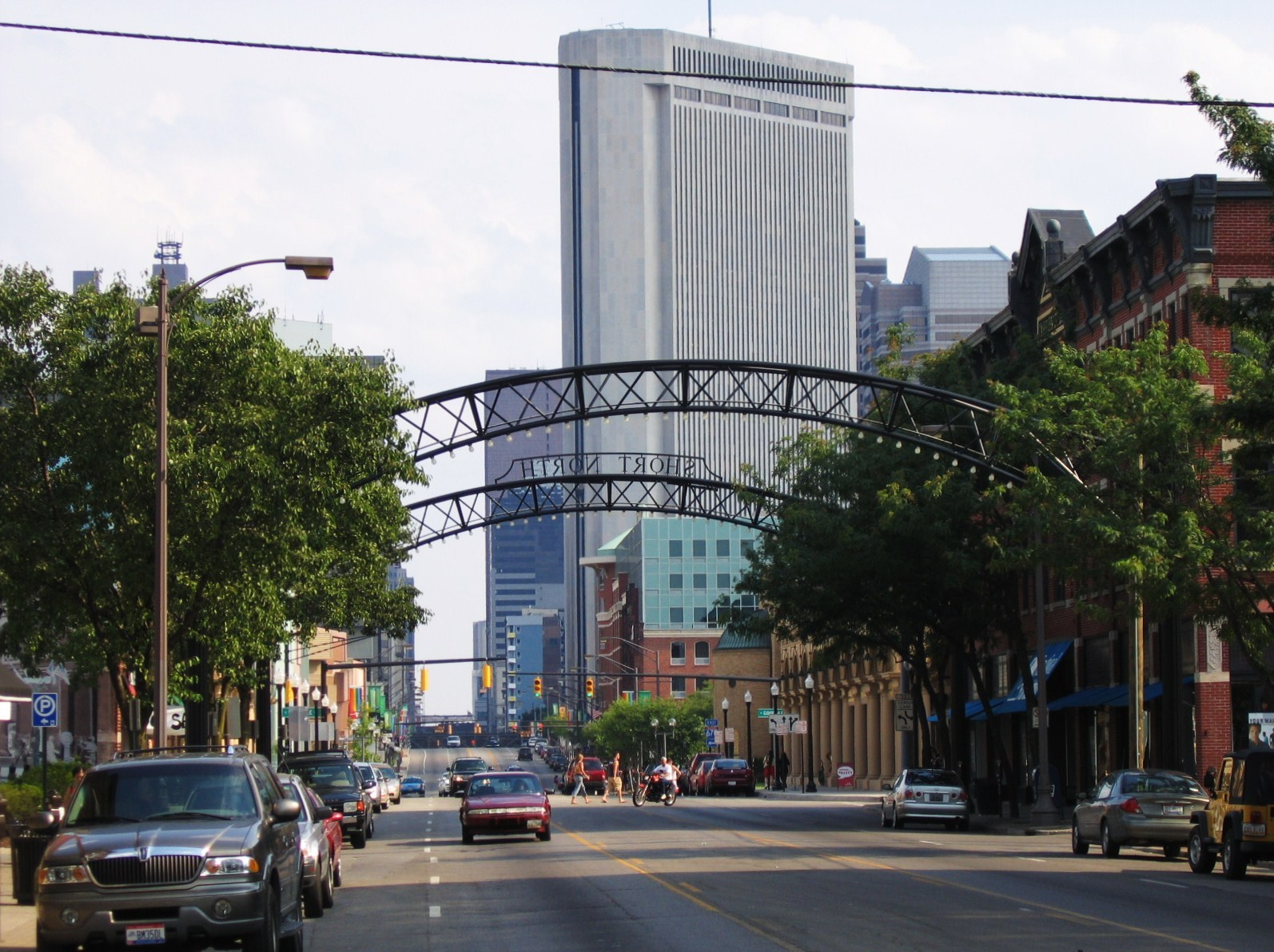 Looking downtown on N. High Street in The Short North neighborhood, Columbus, Ohio.